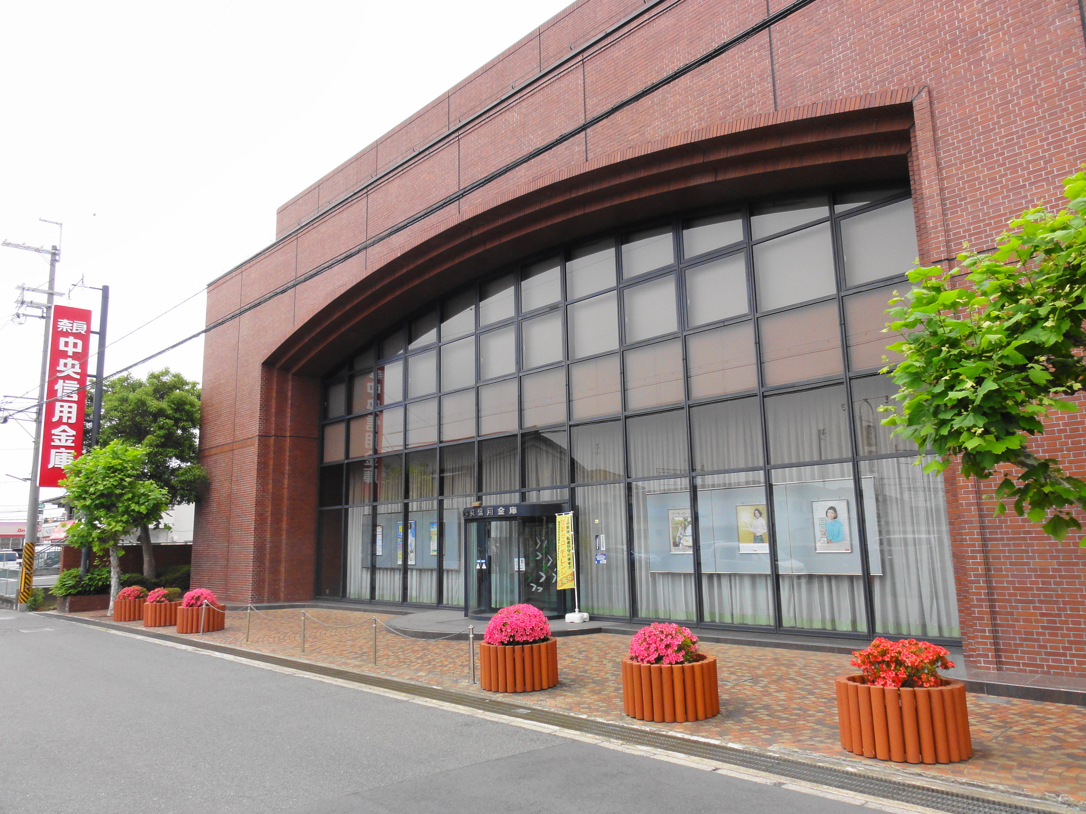 Nara chuo shinkin bank(Head office),Nara prefecture, Japan